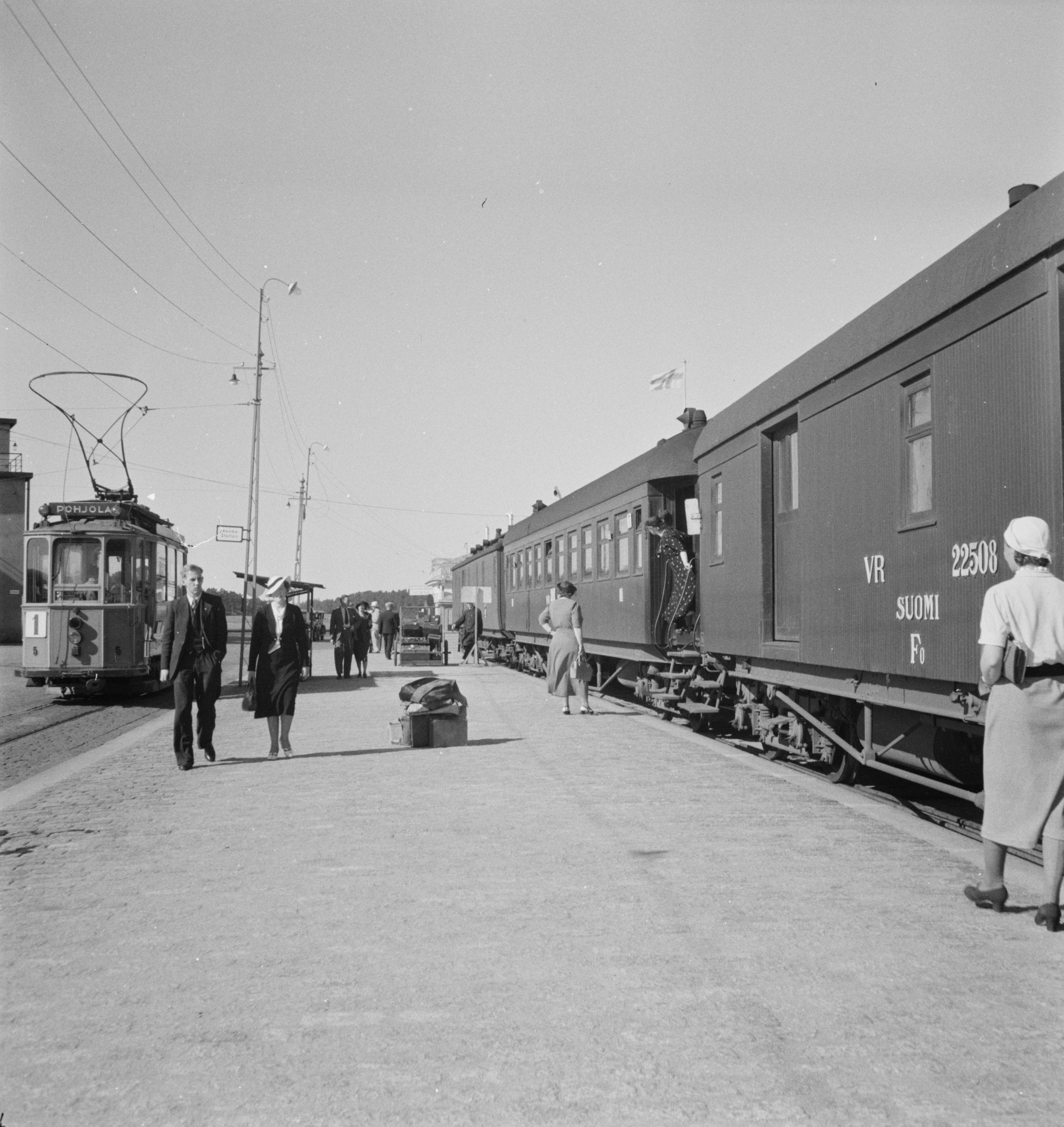 Tram at railway station in Turku, Finland. Library of Congress title: Miscellaneous lot of photographs by Barbara Wright. Finland